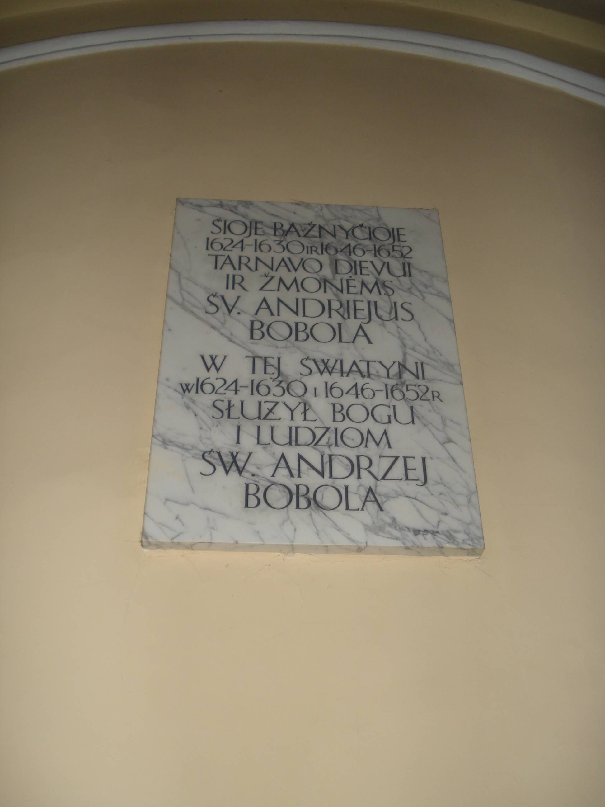 Plaque in memory of Andrzej Bobola in the Church of St. Casimir in Vilnius